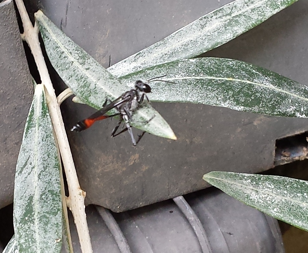 Ammophila sabulosa on olive tree leaf, Castelltallat, Catalonia